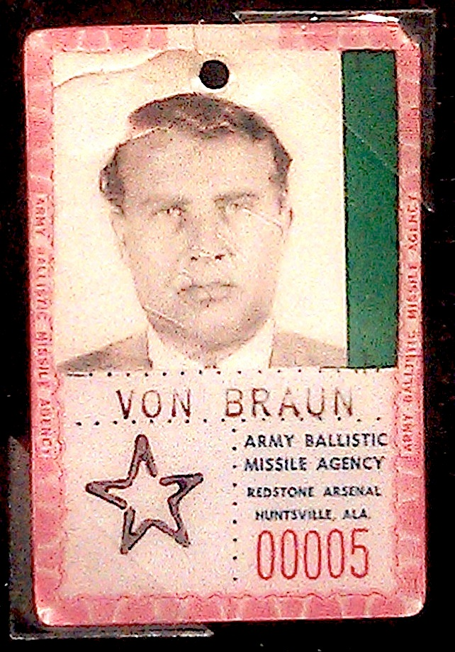 von Braun's badge while at the Army Ballistic Missile Agency, Dated 1957